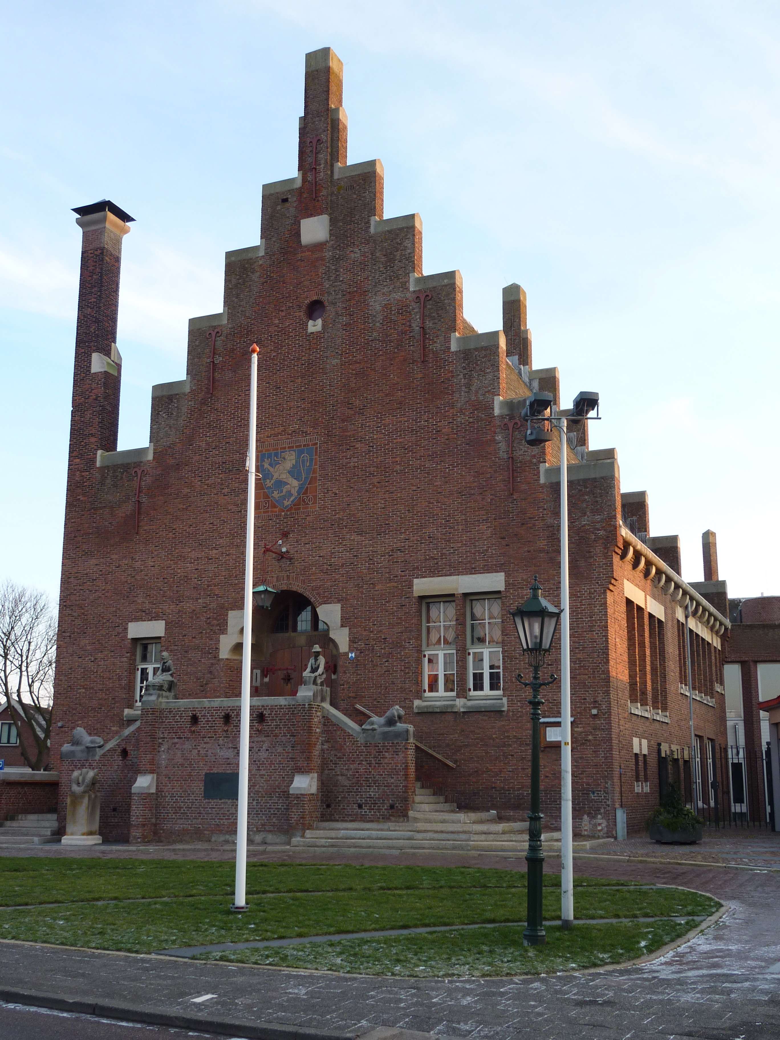 Noordwijkerhout, gemeentehuis